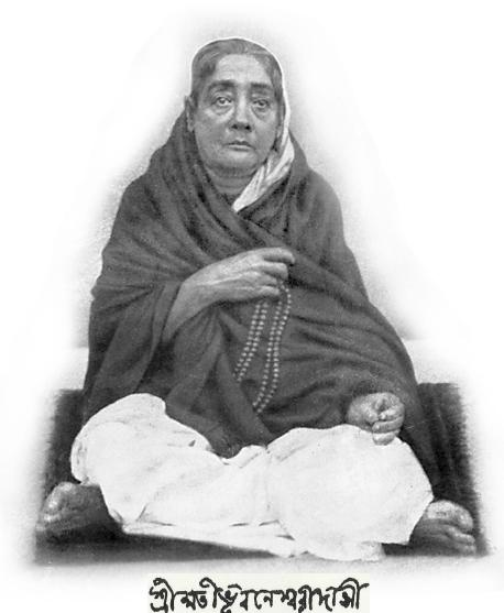 Photograph of Bhuvaneswari Devi, mother of Swami Vivekananda